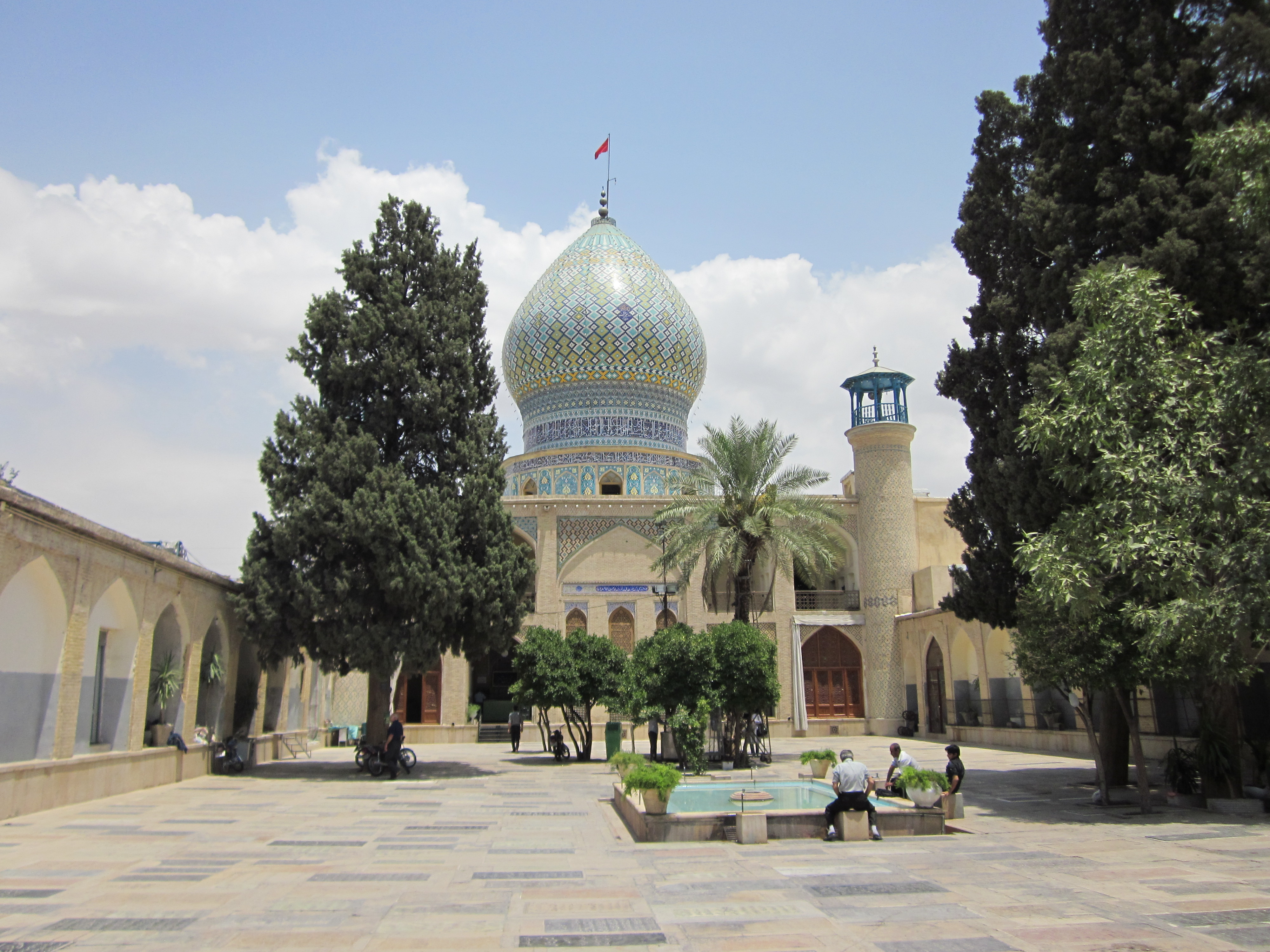 Mosque and shrine of Emir Ali in Shiraz, Iran.